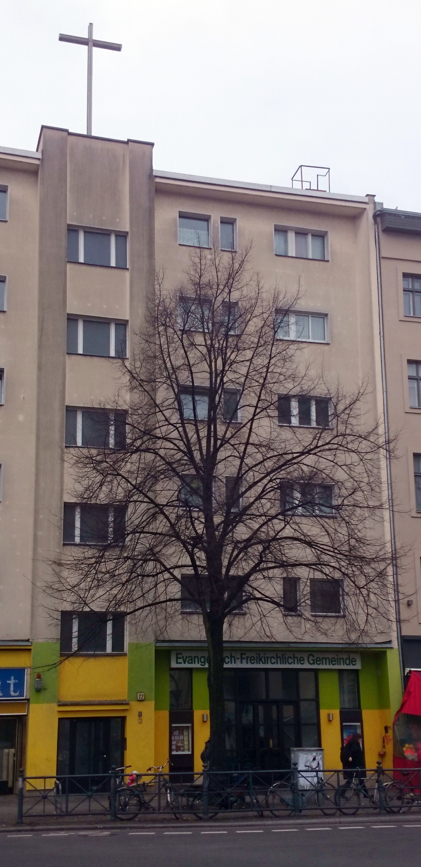 Berlin in winter.